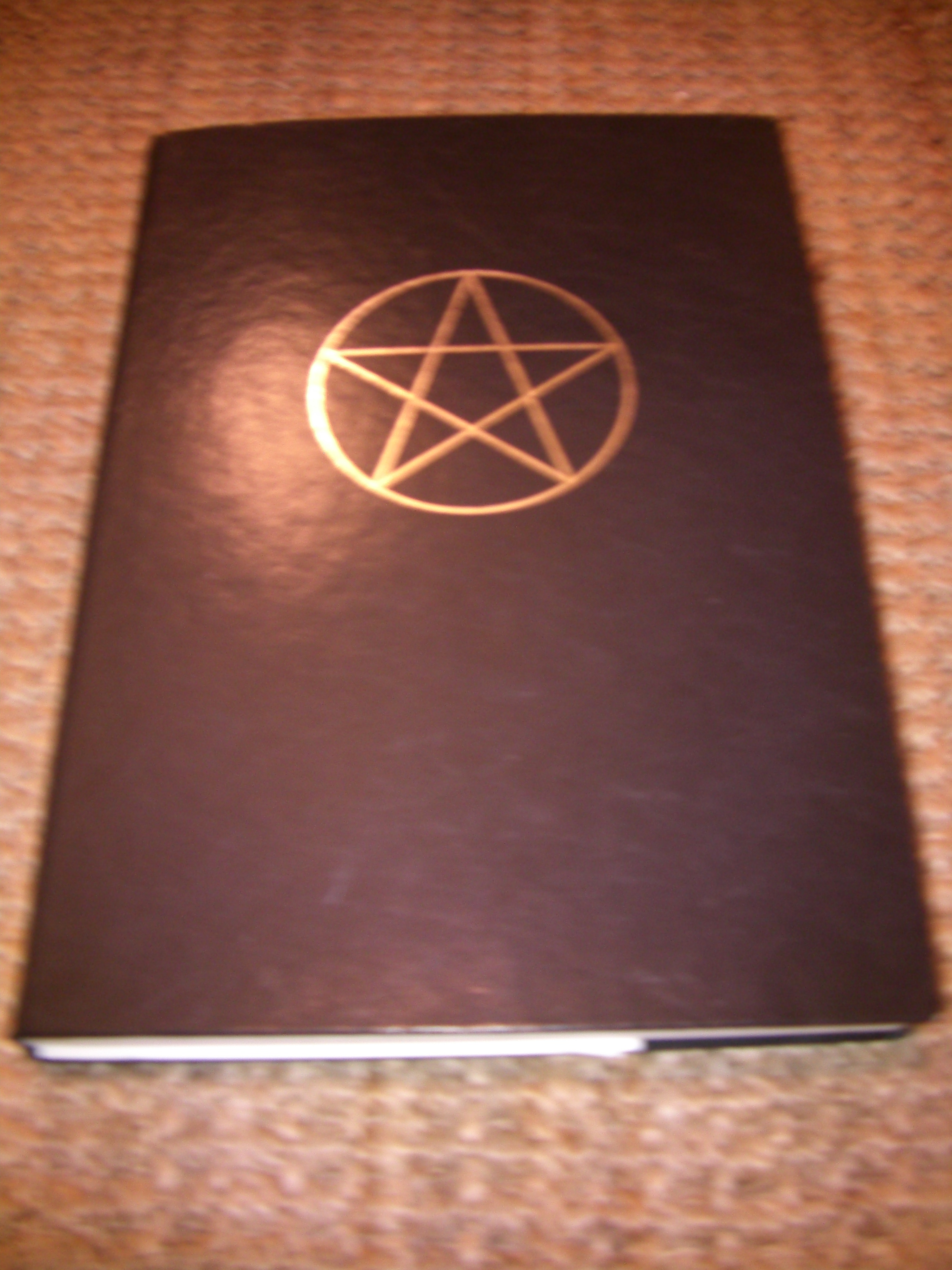 An example of a Book of Shadows